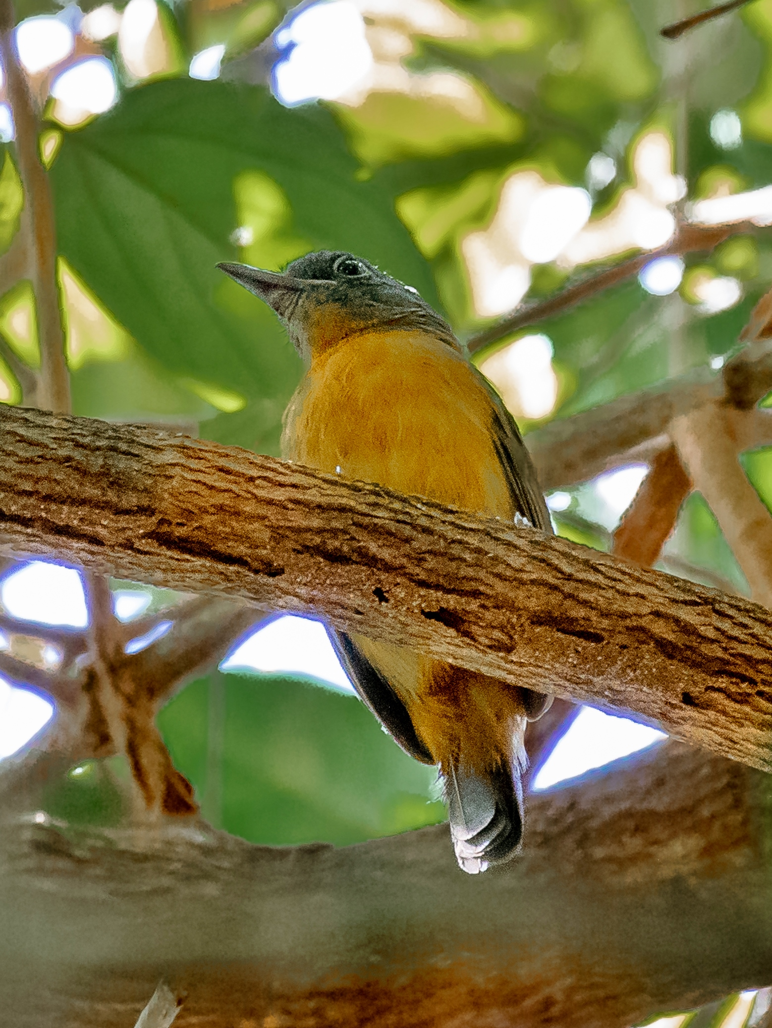 Thamnophilus nigrocinereus - Blackish-grey Antshrike (female); Anavilhanas islands, Novo Airão, Amazonas, Brazil